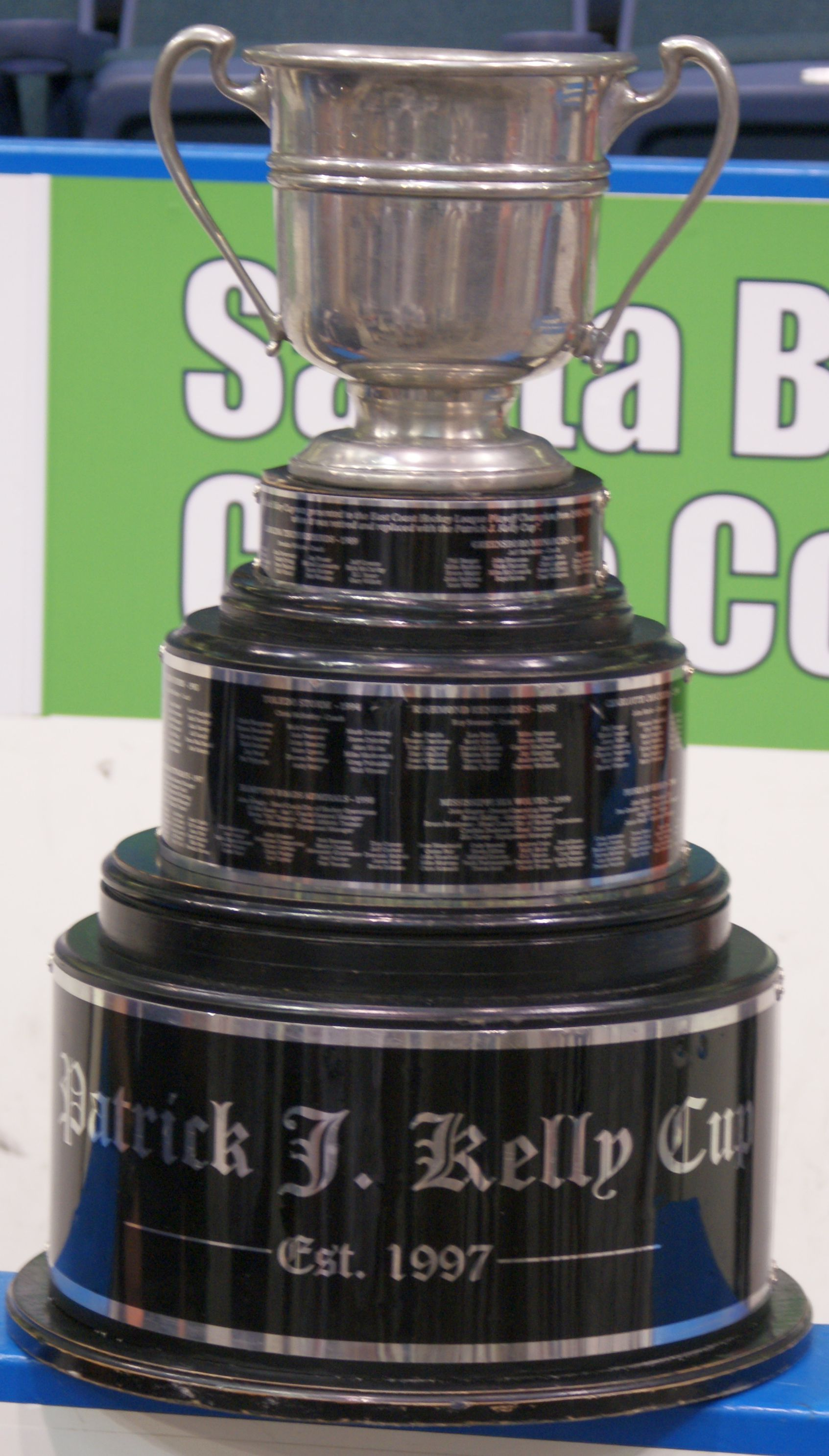 The ECHL's Kelly Cup -- the postseason trophy for the league.